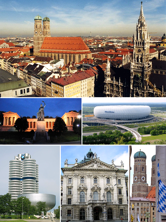 Montage of Munich City, Bayern.